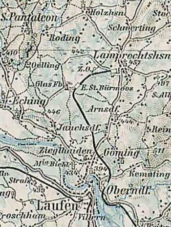 3rd Military Mapping Survey of Austria-Hungary - Salzburg